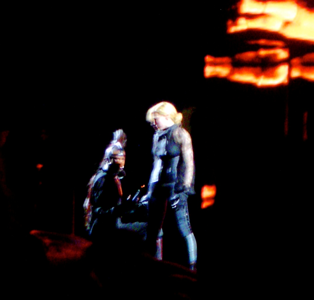 Madonna accompanied by a male dancer wearing a horse rein around his head, during the performance of "Get Together" on the Confessions Tour.